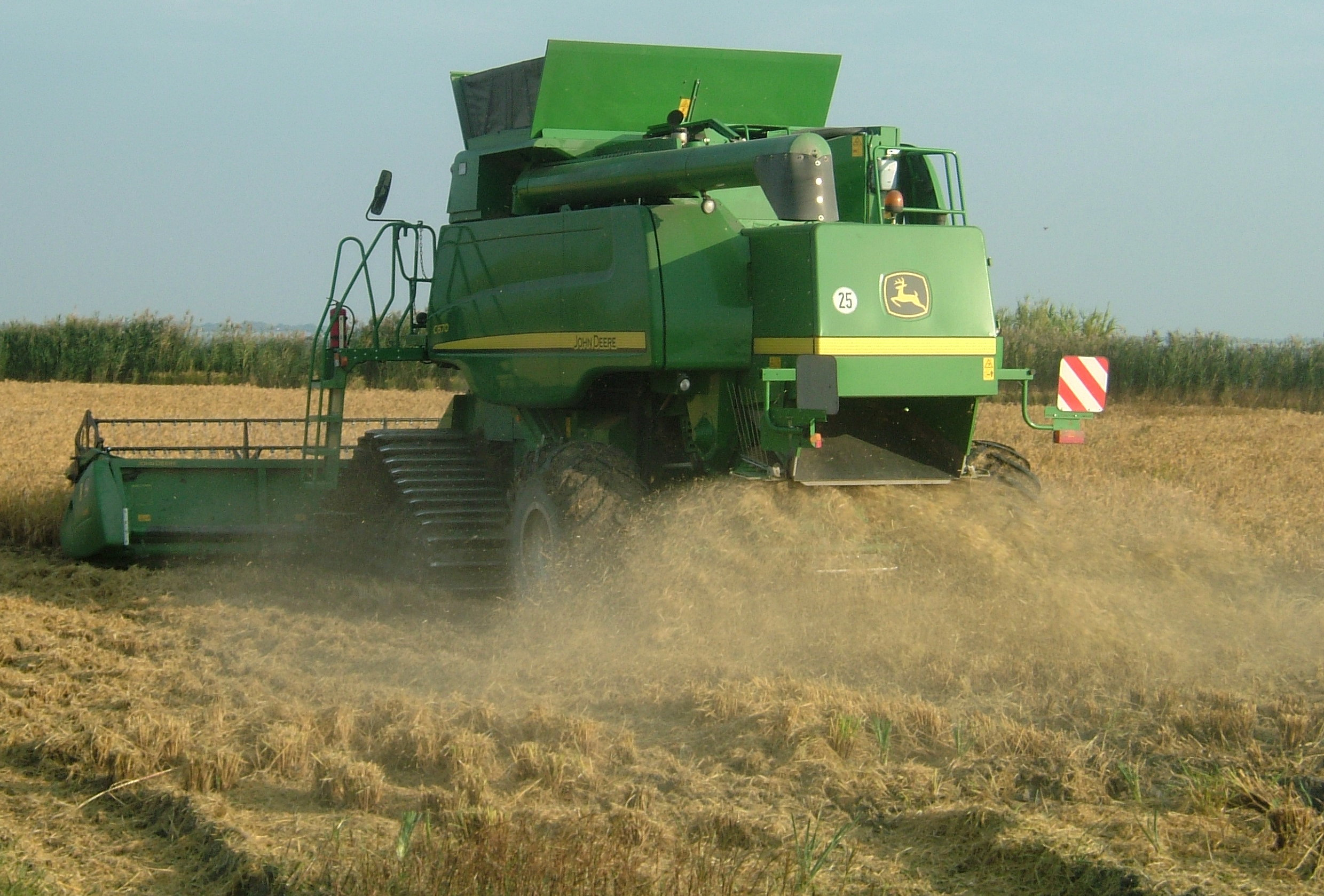 John Deere C570 (C670?) half-tracked combine harvester, Camargue, France